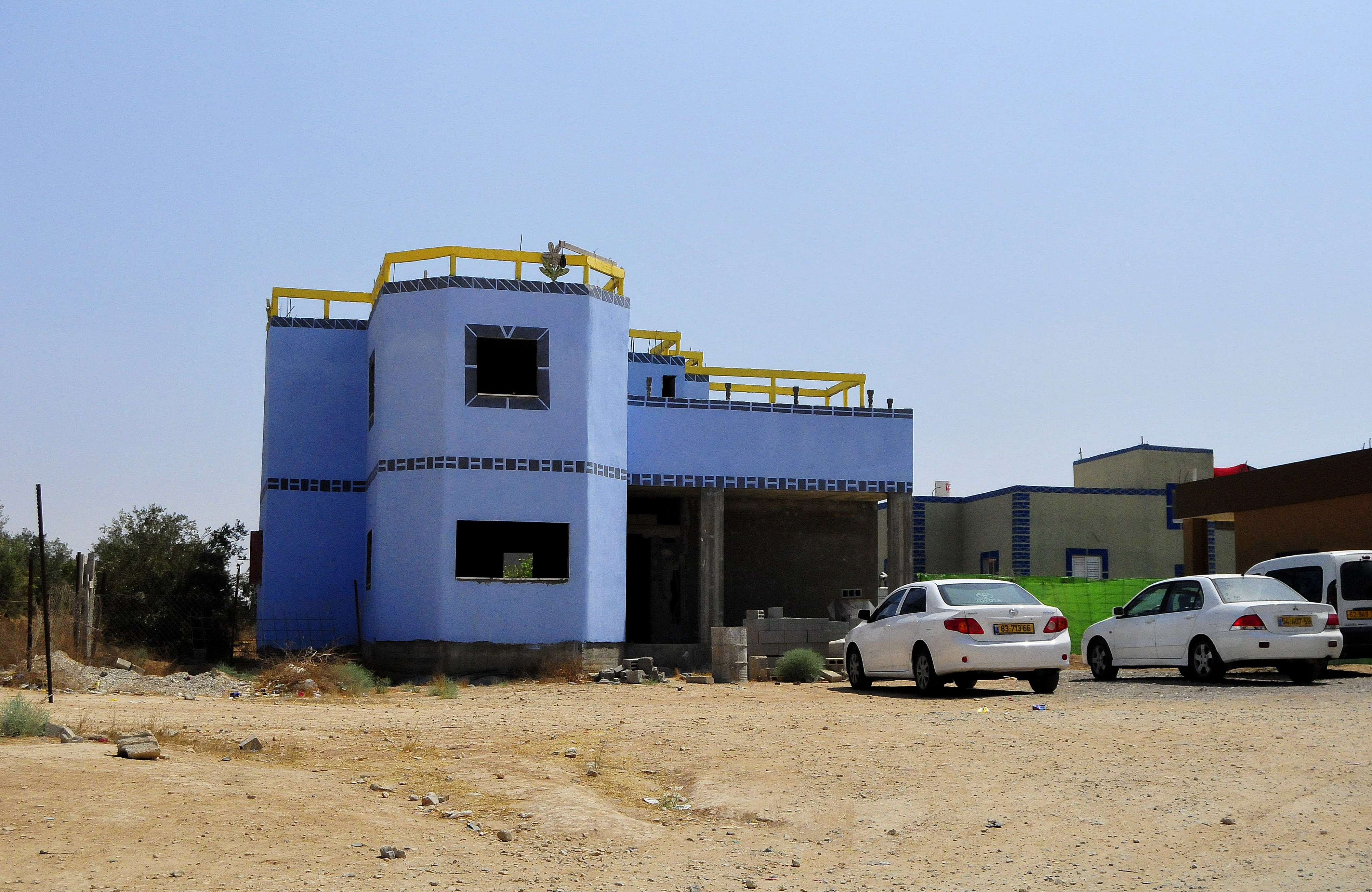 Another private house in Tirabin al-Sana